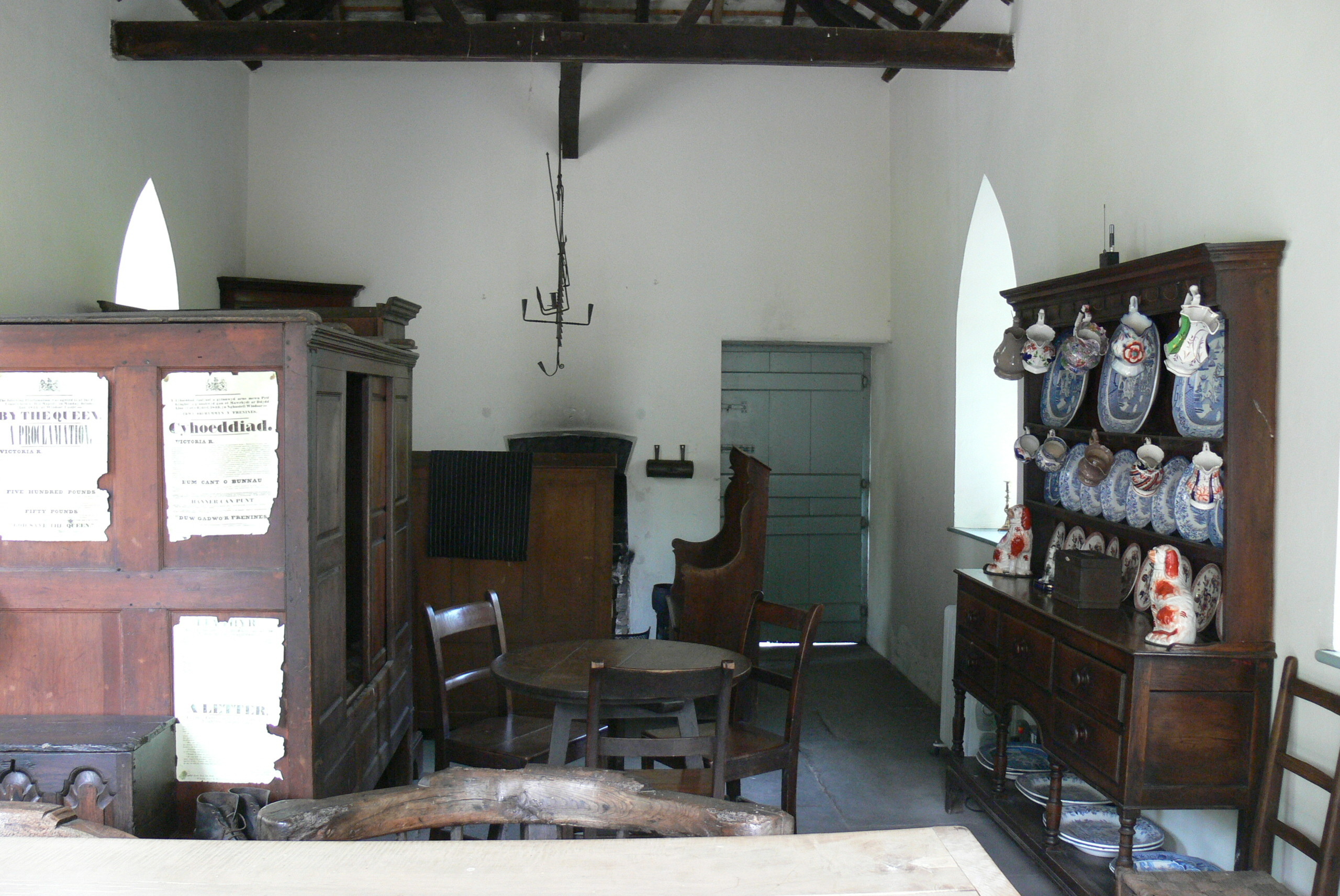 St.Fagans National History Museum ( Cardiff ). Aberystwyth Southgate Tollhouse: Interior.